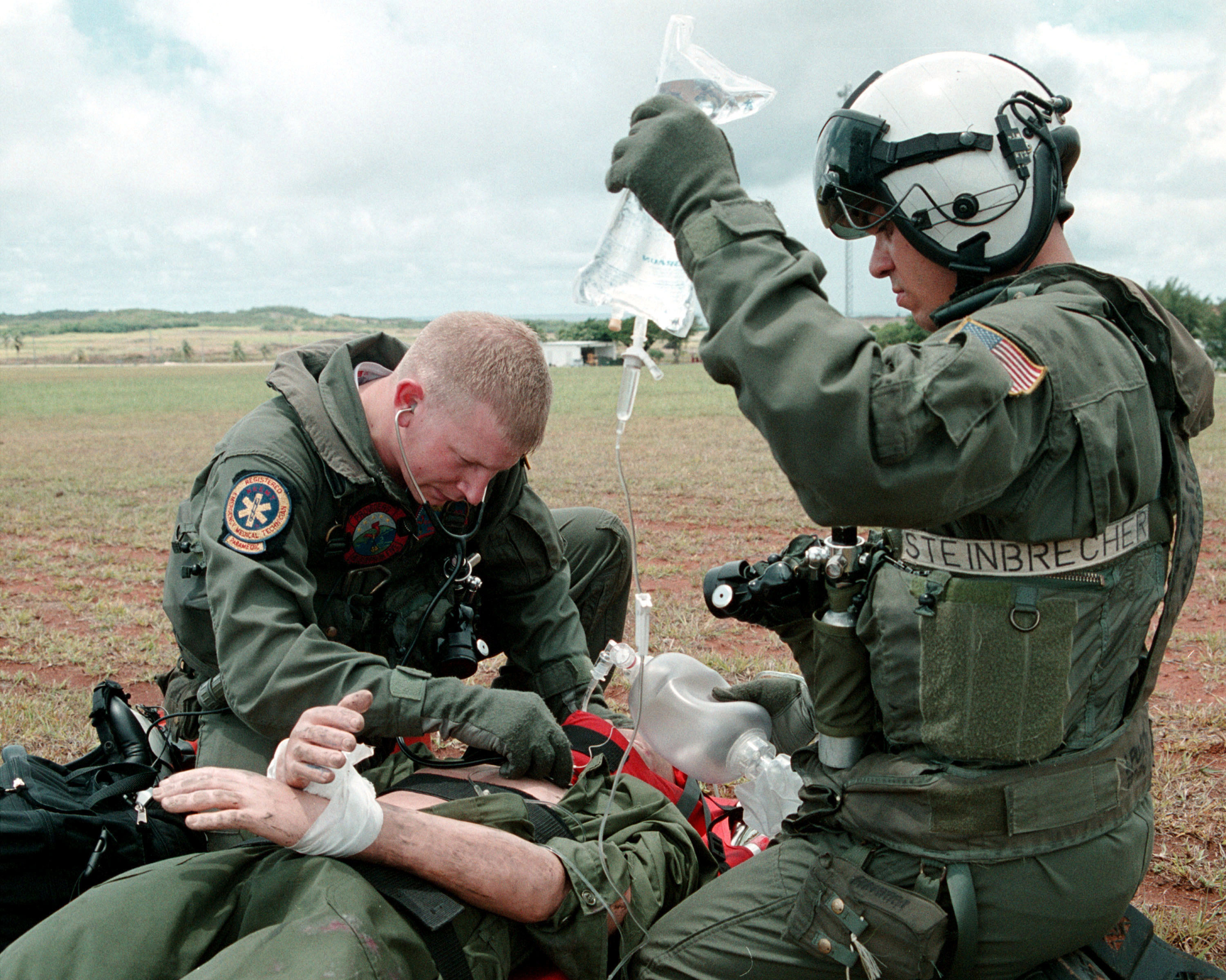 010531-N-3889M-004 Talofofo, Guam (May 31, 2001) -- Hospital Corpsman 3rd Class Raymond Munn from Cheyenne, WY, assigned to the "Providers" of Helicopter Combat Support Squadron Five (HC-5), listens for correct tube placement on an intubated trauma victim during a search and rescue (SAR) exercise. Aviation Machinist's Mate 3rd Class Todd Steinbrecher (right) from Kansas City, KS, assists in the simulated rescue. U.S. Navy photo by Photographer's Mate 2nd Class Marjorie McNamee. (RELEASED)